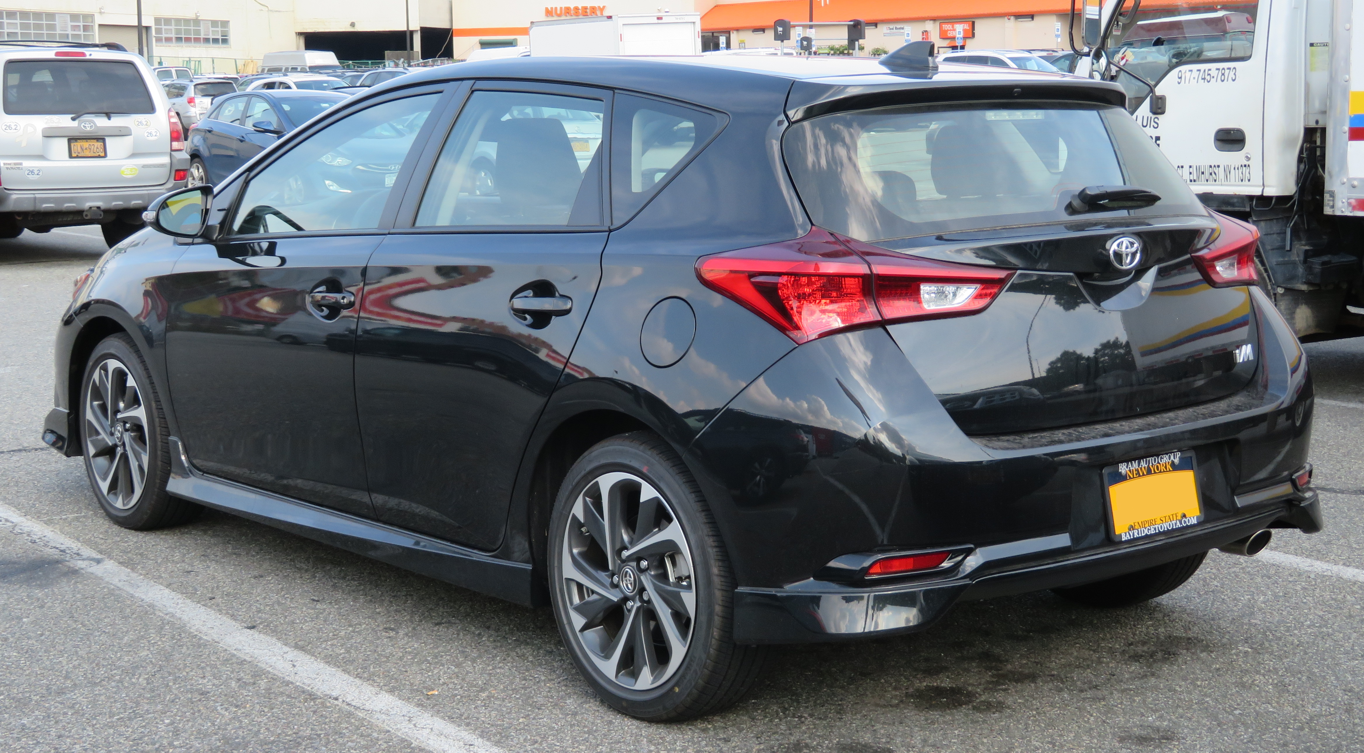 In Flushing (Queens), New York.